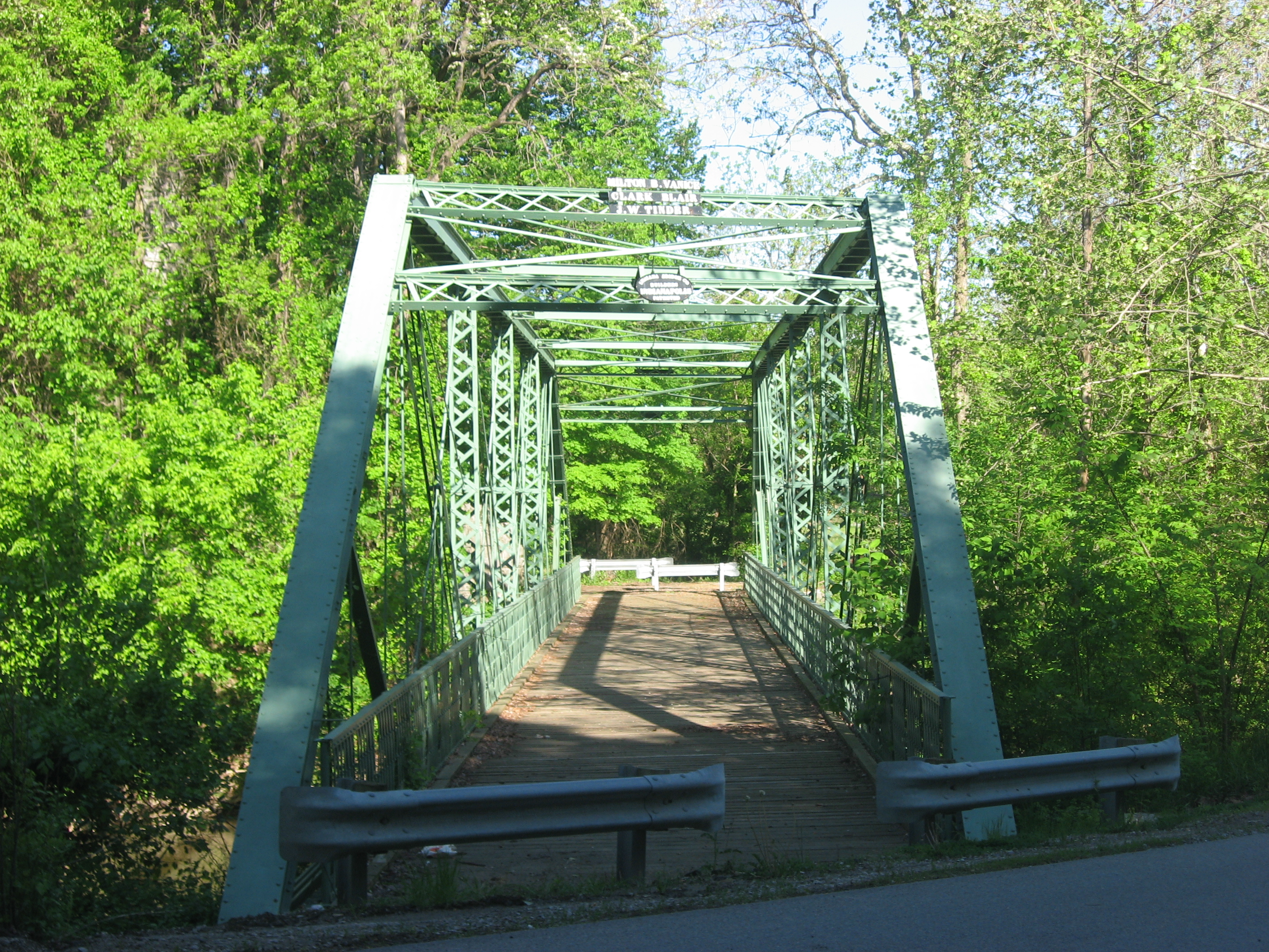 Eastern end of the County Bridge 178, which formerly carried Road 150E over White Lick Creek on the eastern edge of Danville, Hendricks County, Indiana, United States. Built in 1887, it and an adjacent railroad bridge are listed together on the National Register of Historic Places as the Twin Bridges.